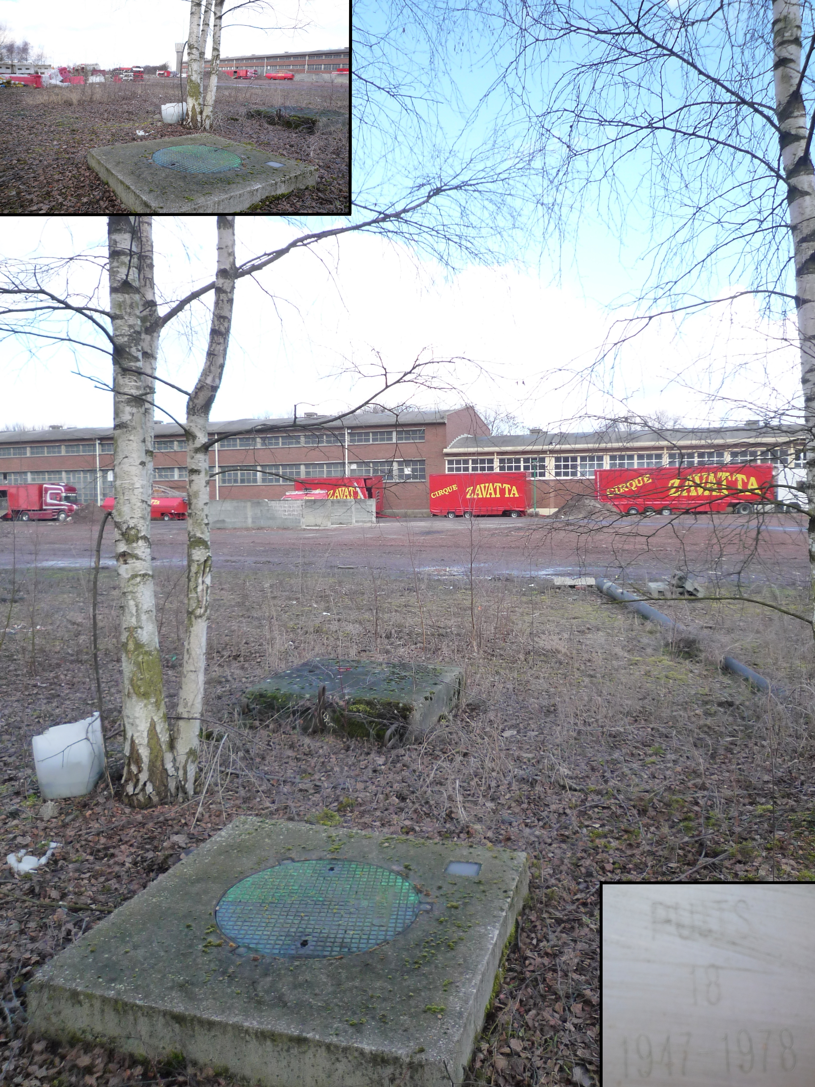 Pit n° 18, Compagnie des mines de Lens, Hulluch, Pas-de-Calais, Nord-Pas-de-Calais, France.